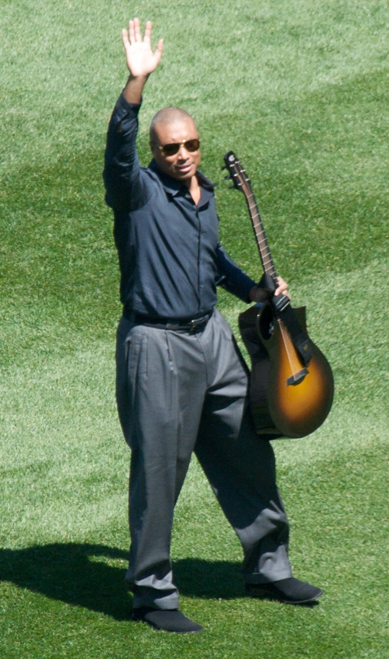 Bernie Williams